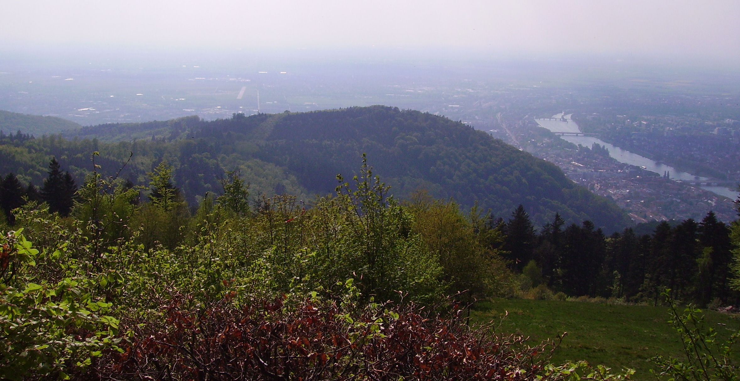 from top of Königstuhl (mountain) in Heidelberg, Germany